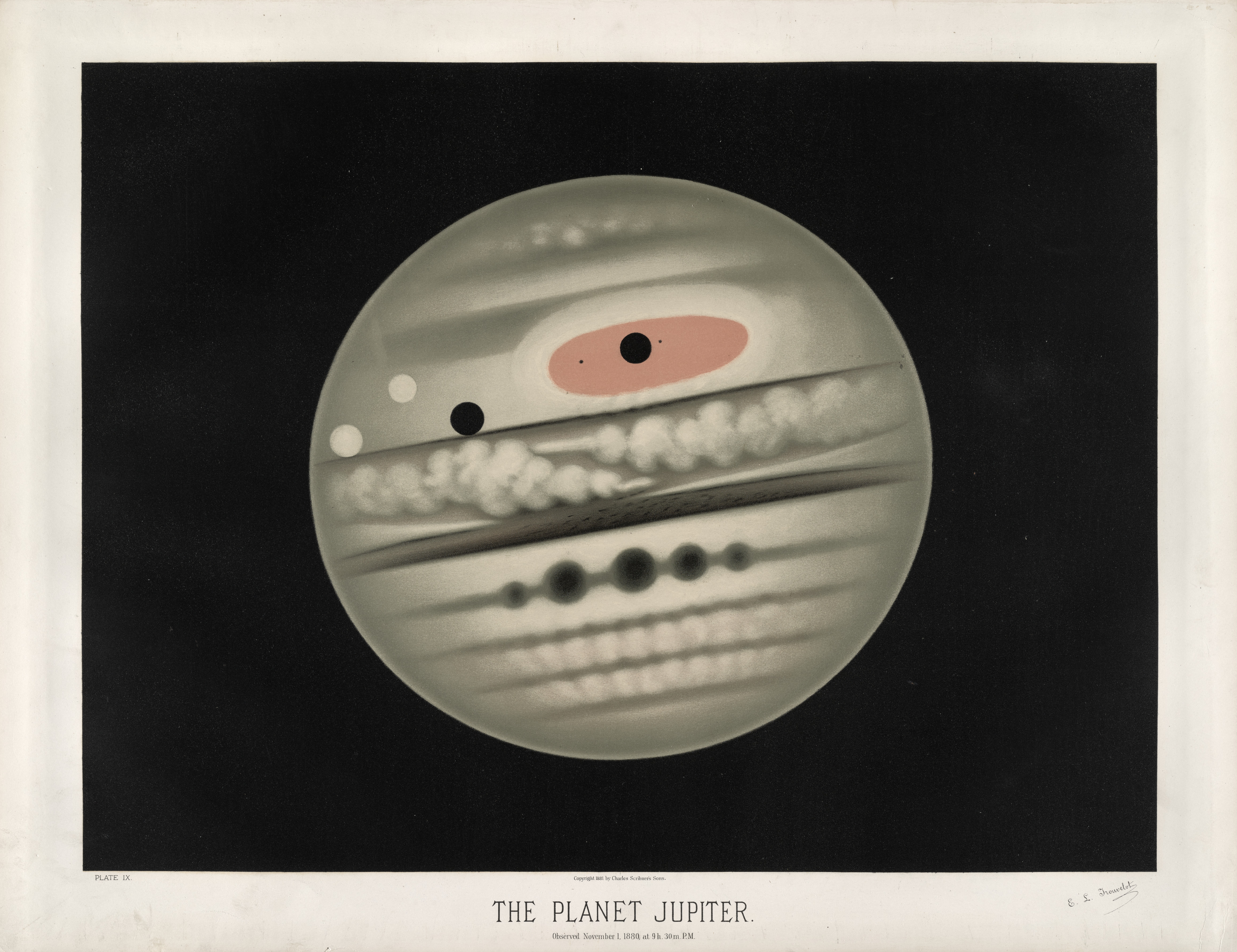 The planet Jupiter. Observed November 1, 1880, at 9h. 30m. P.M. (Plate IX from The Trouvelot Astronomical Drawings 1881)